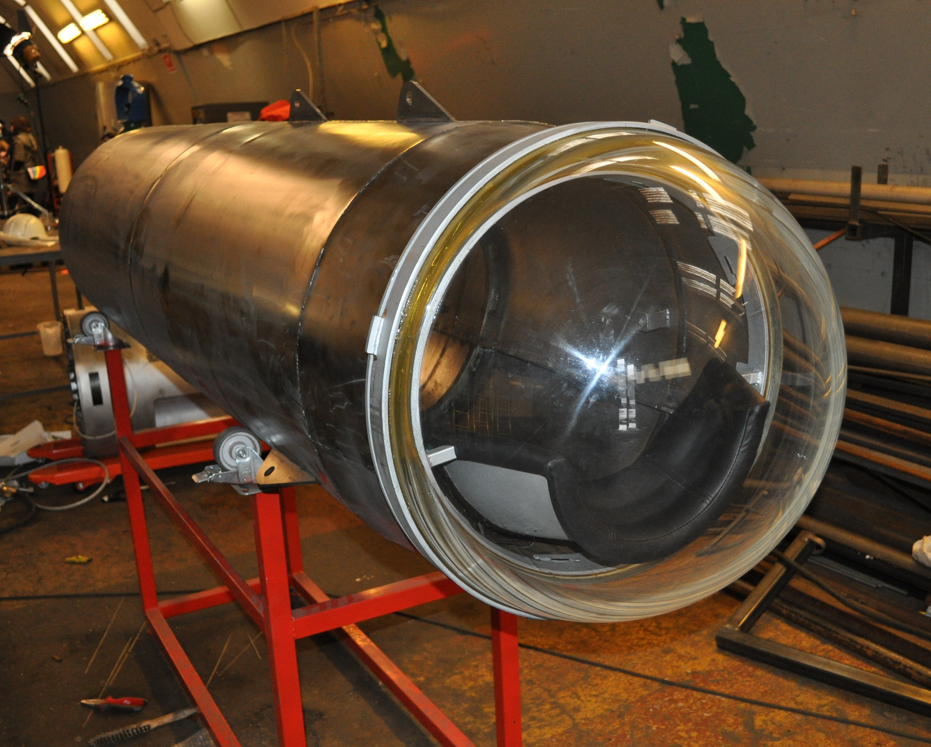 The micro spacecraft (MSC) will be launched by a HEAT rocket to an altitude above 100 km. Prior to re-entry it will jettison the booster and decelerate by a succession of parachutes. This version named "Tycho Brahe 1" is 640 mm in diameter and should support a crash test dummy in a June 2010 flight to 40 km. The temperatures are expected to be below 200°C rendering a heat shield superfluous. The MSC supporting a person would be 800 mm in diameter, exclusive heat shield. The view dome is made of Perspex. The eyelets are for the parachutes. The MSC will be painted in glossy orange for easy recovery in the sea.